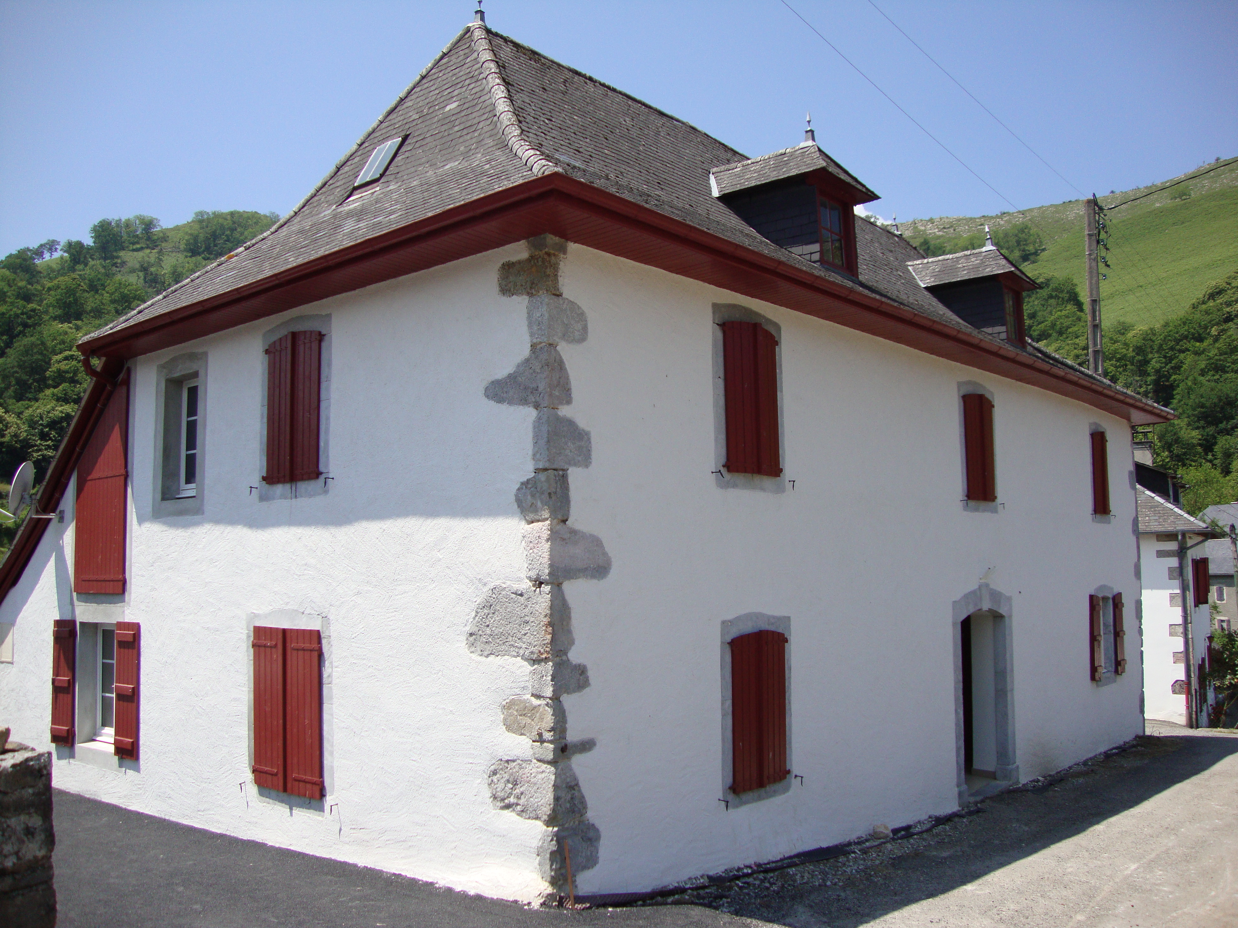 Etchebar (Pyr-Atl, Fr) mairie.